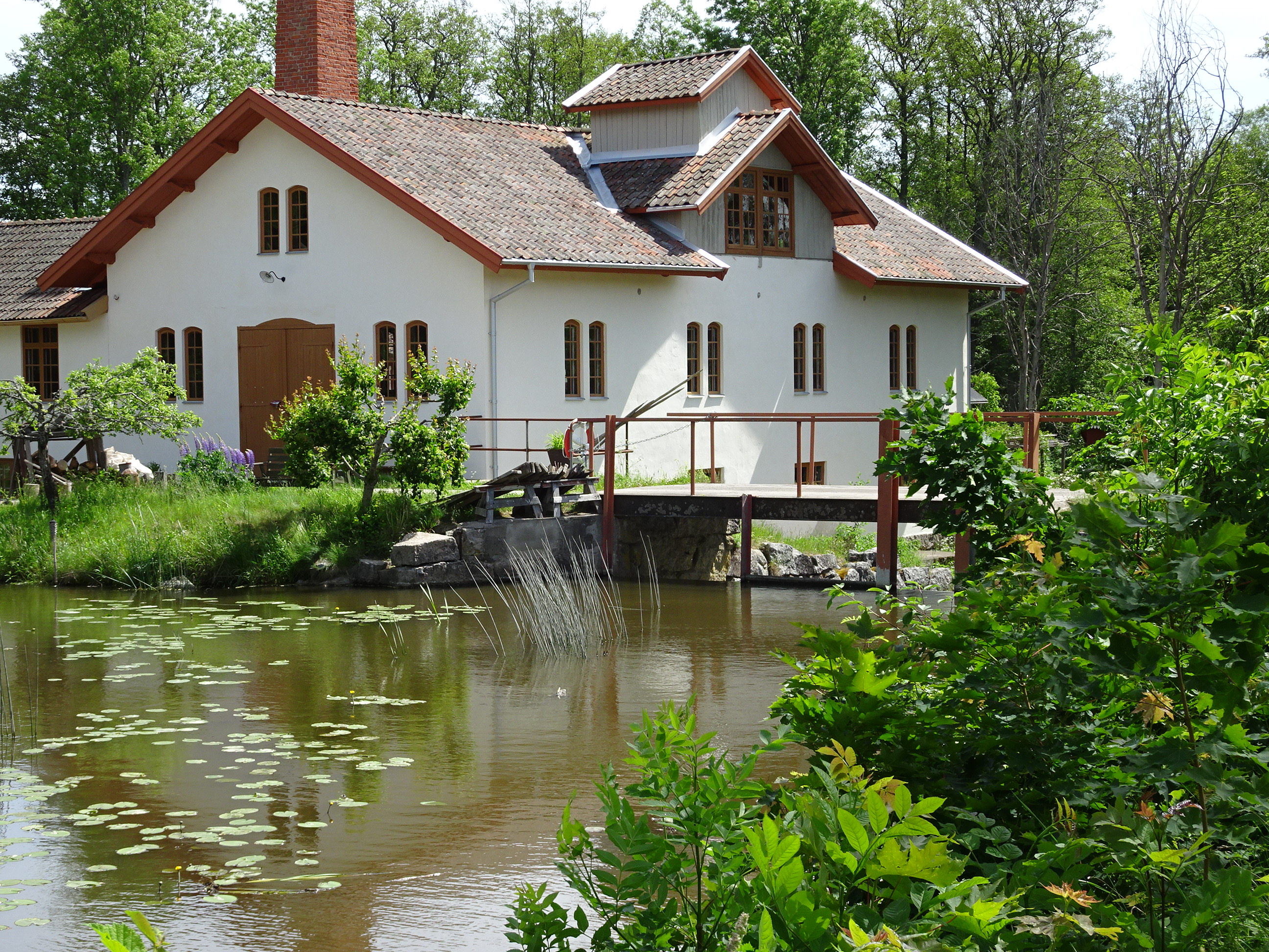 Forsby Kvarn Café, Simtuna Forsby, FJÄRDHUNDRA, close to Heby in Sweden